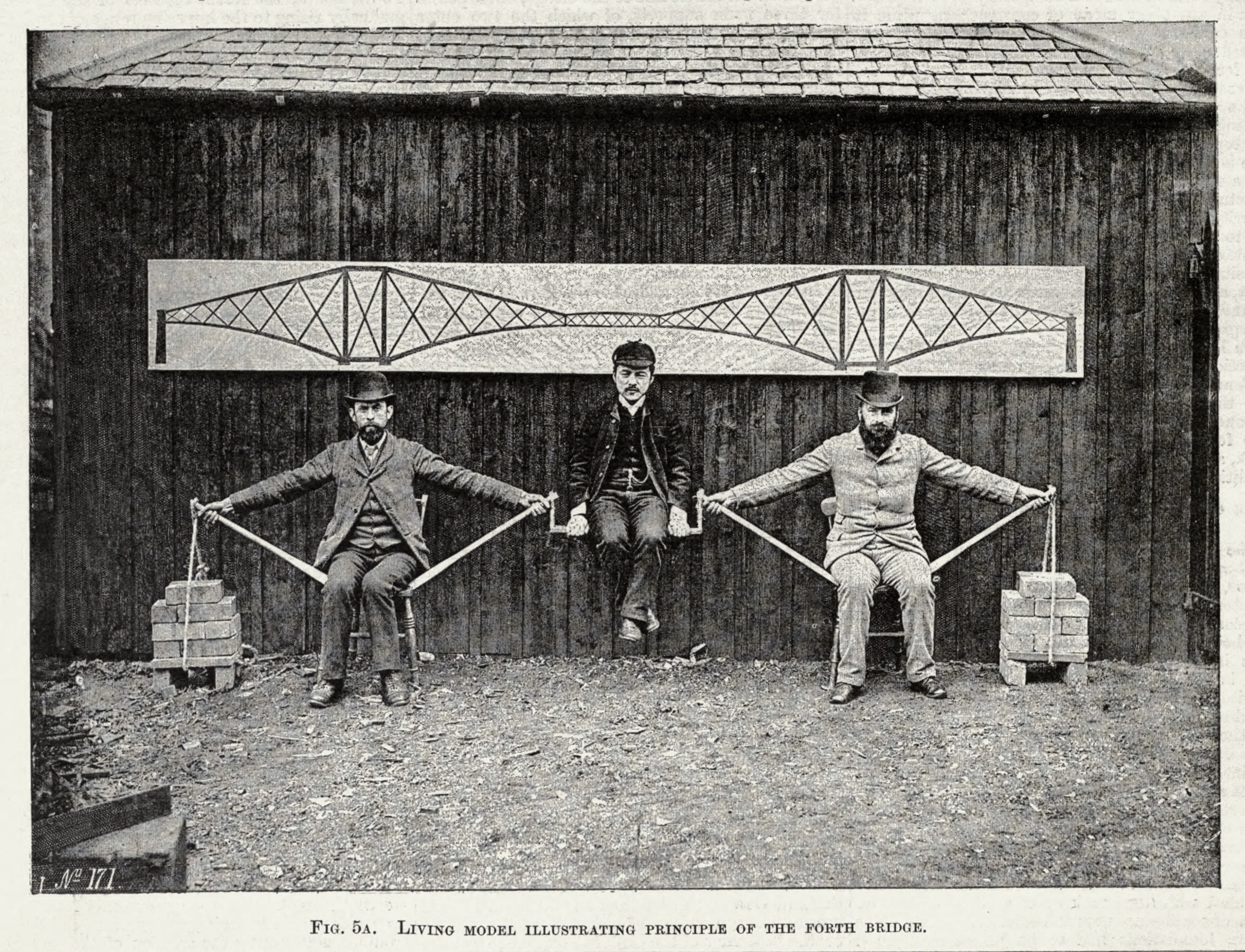 Postcard of Benjamin Baker's human cantilever bridge model.